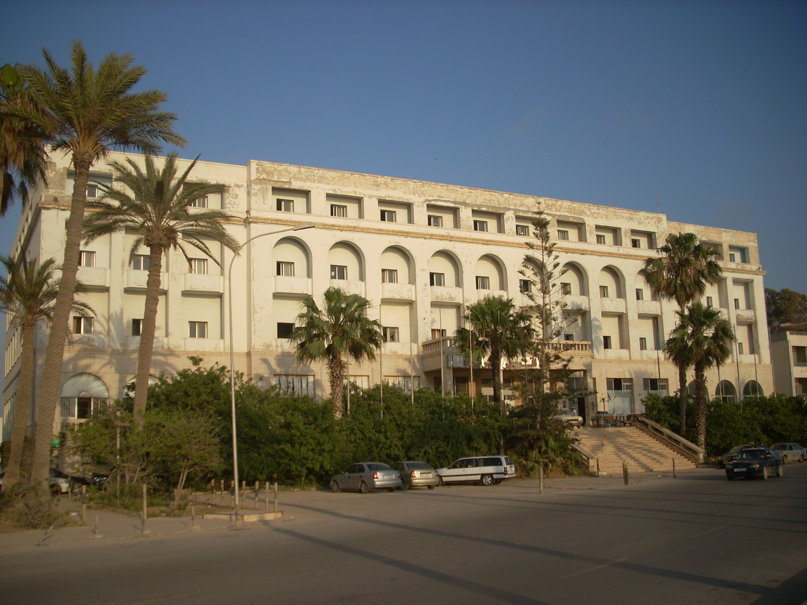 Former Grand Hotel Benghazi, later renovated and reopened as the Qasr al-Jazeera hotel (locally known by its Italian name Berenice Hotel). The building is currently vacant as of 2009, but is to be developed into a five star hotel by the Maltese Corinthia Hotel Group Source for hotel redevelopment. Image:Grand hotel.JPG (A pre-1945 image of the hotel) Image:Berenice Hotel, Benghazi.jpg (A 1968-1972 image of the hotel)